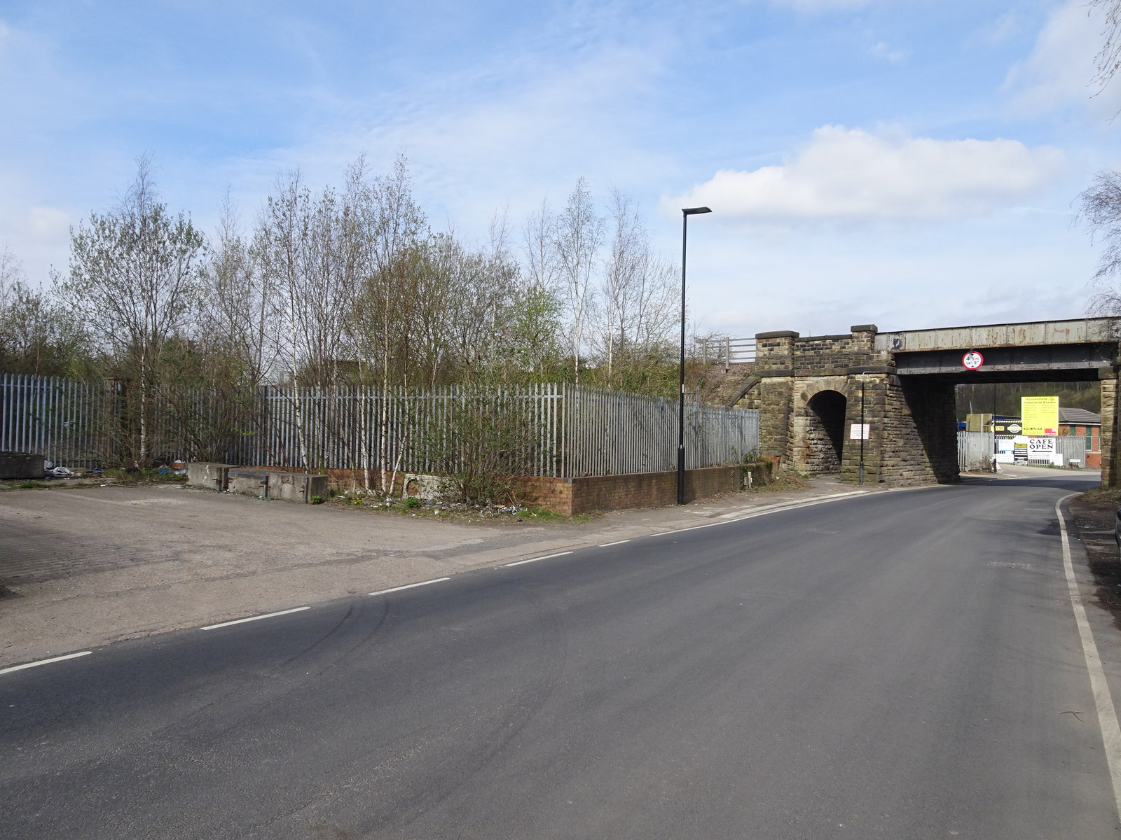 Ecclesfield West railway station (site), YorkshireOpened in 1897 by the Midland Railway on the line from Sheffield to Barnsley, this station closed in 1967. View north from Loicher Lane at the site of the former station building, behind which were sloping paths up to the (wooden) platform level on the embankment. No trace apparently remains, although the railway line is still well used.